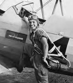 Aviation Cadet Oscar F. Perdomo, July 8, 1943, at the Pilot School, Williams Field, Chandler, Arizona, class 44-A